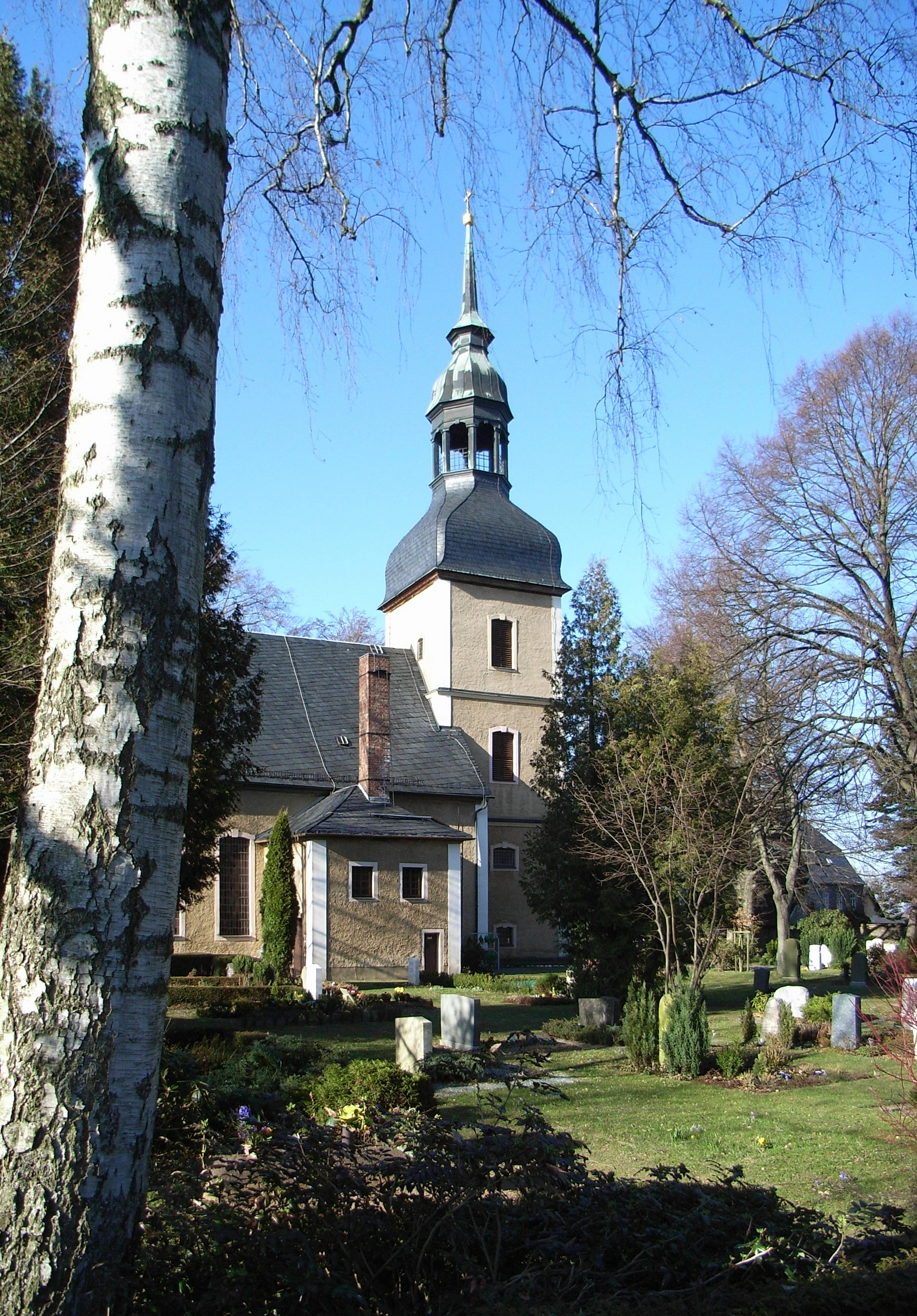 Church Chemnitz-Wittgensdorf